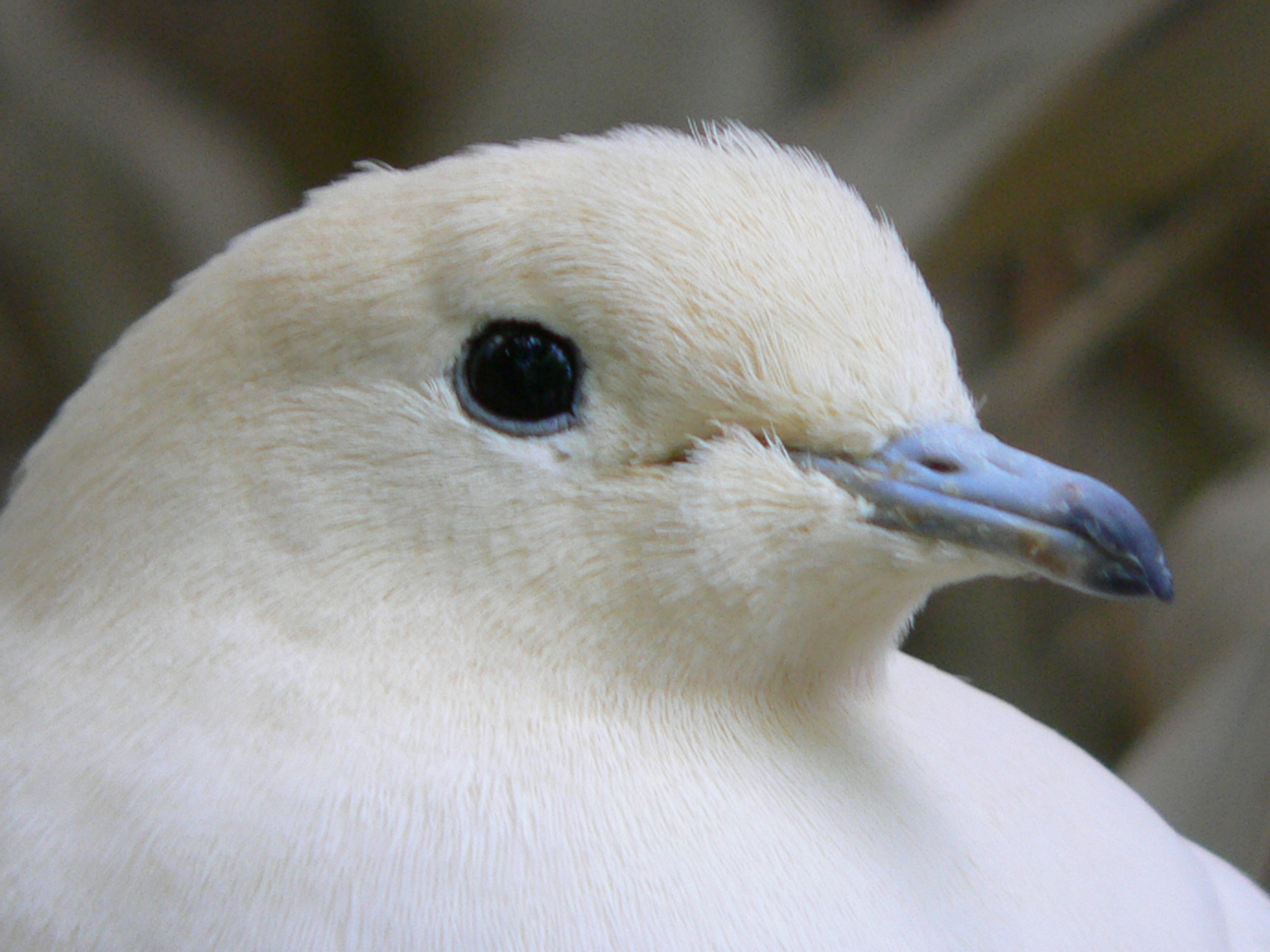 Pied Imperial-pigeon